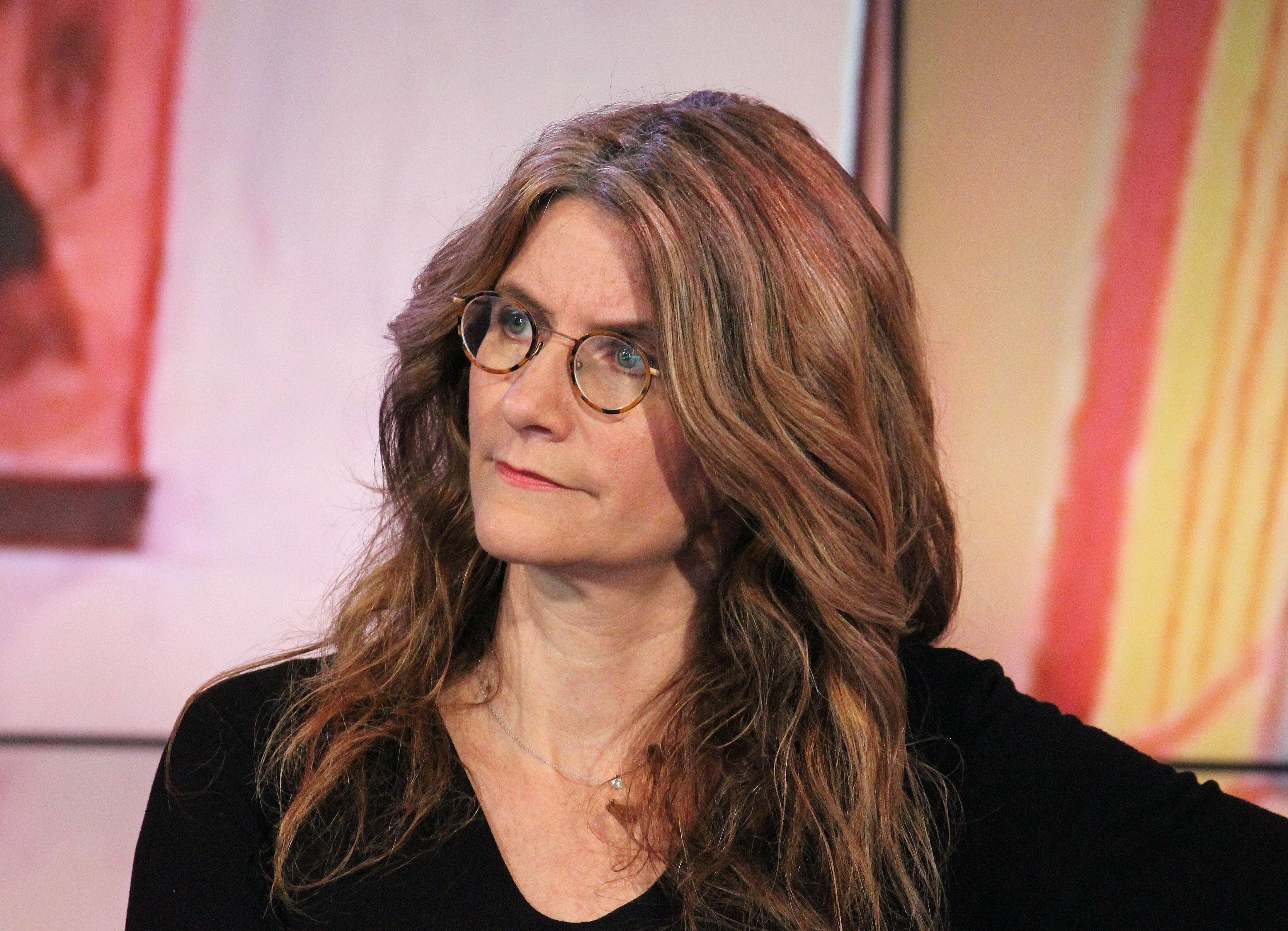 Anna Katharina Hahn Frankfurt Book Fair 2018